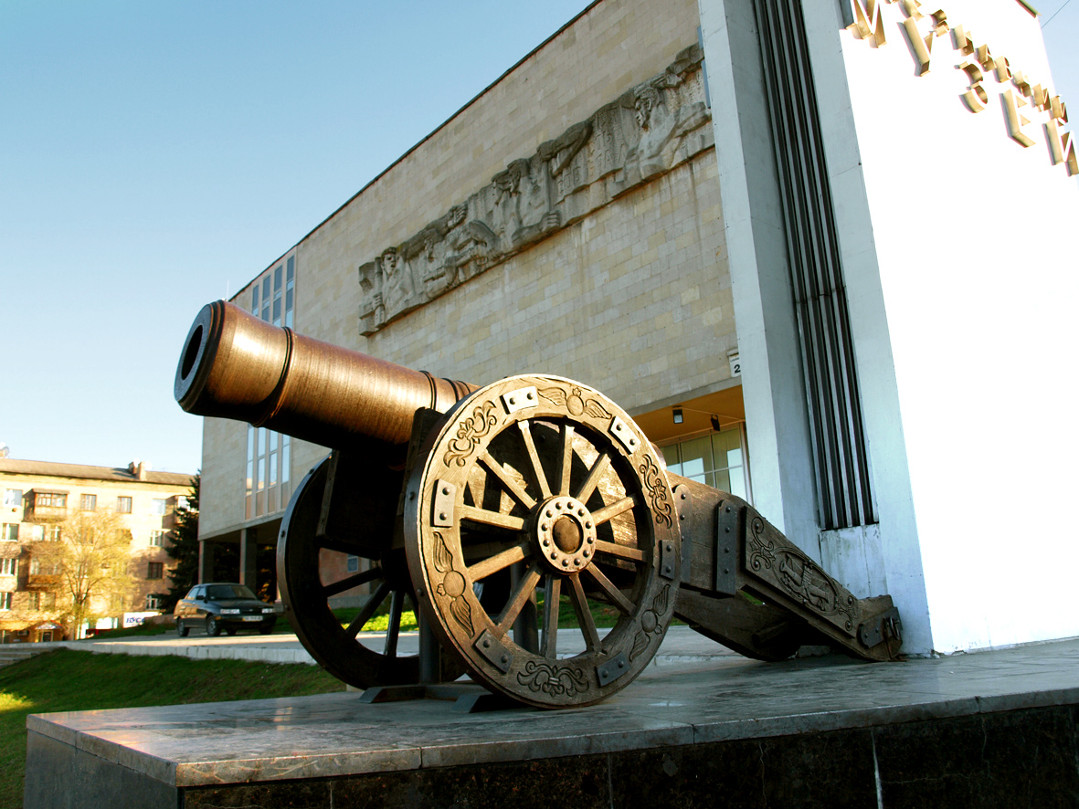 Licorne, a type of muzzle-loading howitzer. Licorne was produced in Luhansk in 1814. Luhansk Local History Museum (Ukraine)